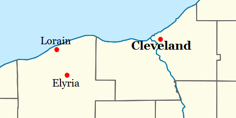 Relative location of cities of Lorain and Elyria to Cleveland, all in state of Ohio, United States.